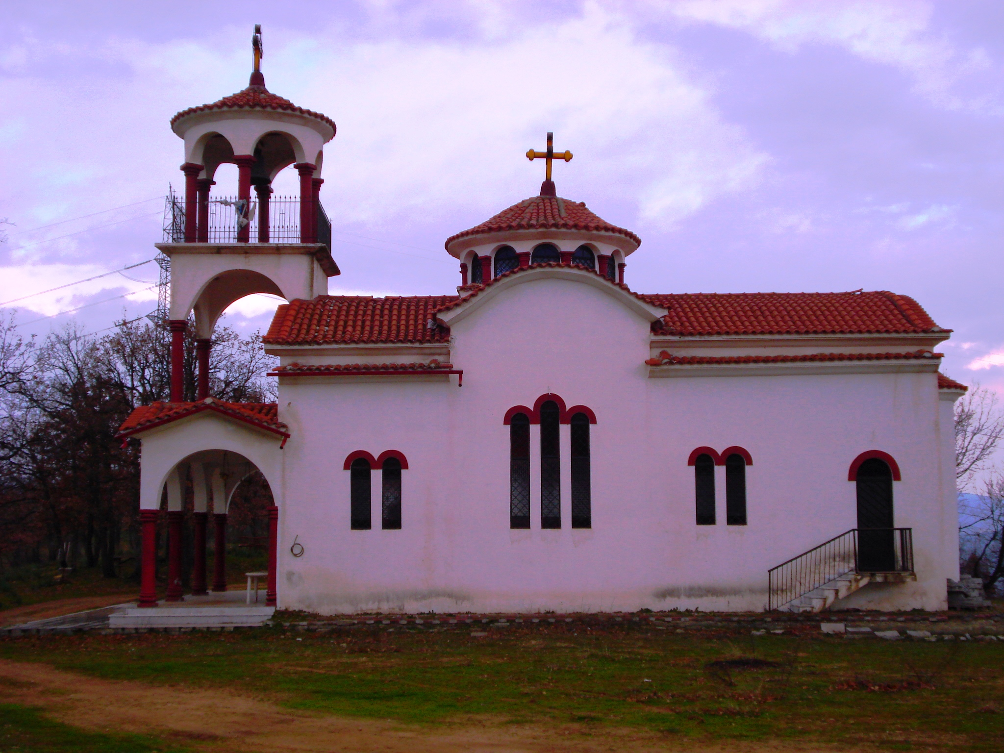 The Greek Orthodox country Church Profitis Ilias (Prophet Elias) in Loutrochori, Skydra Municipality, Pella Prefecture, Macedonia, Greece.